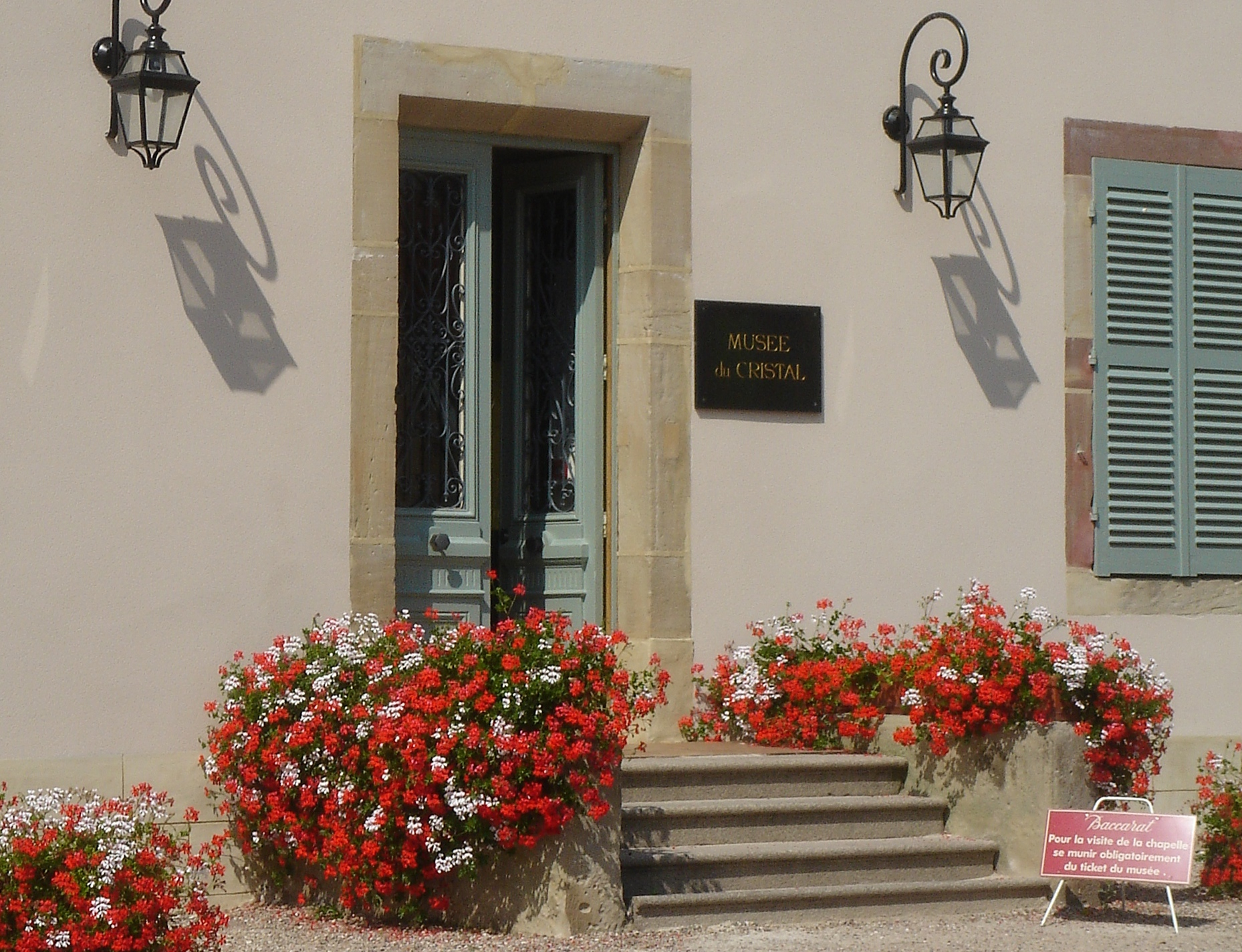 Musée Baccarat